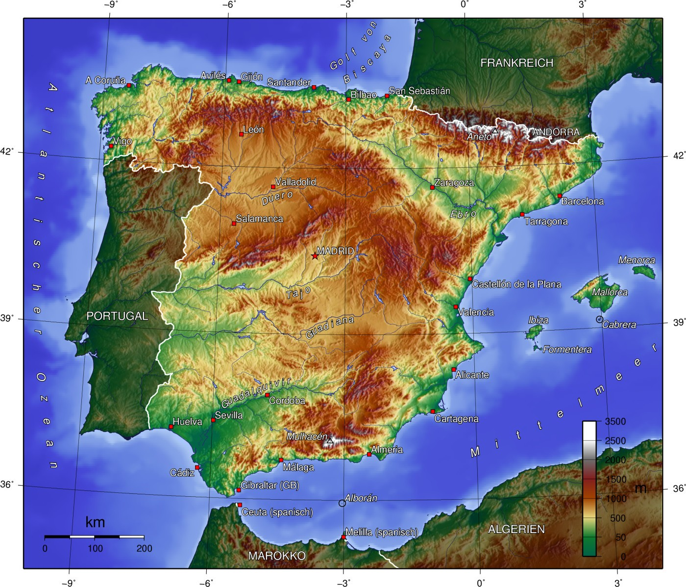 Topographic map of Spain (german description).